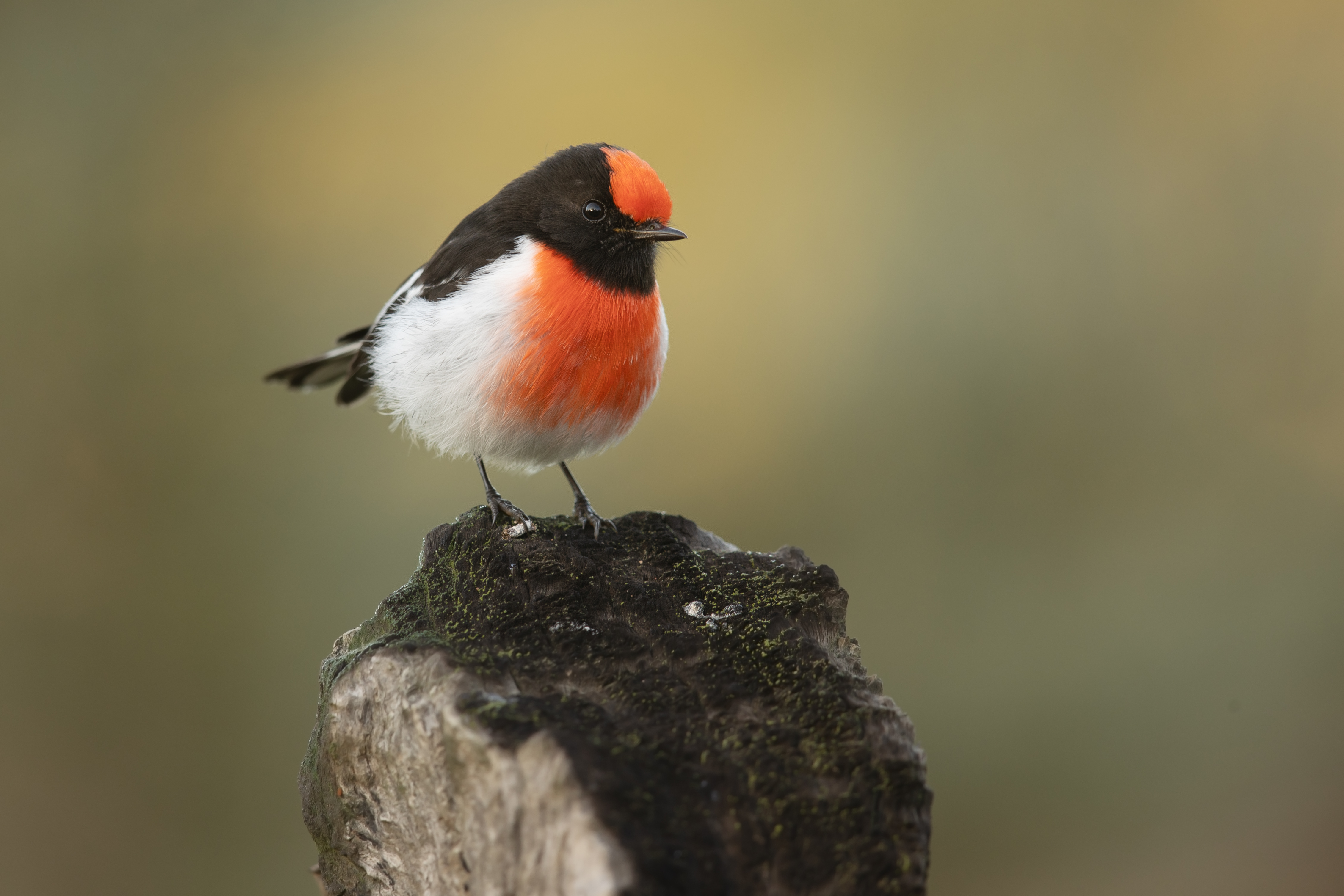 Red-capped robin (Petroica goodenovii), Bimbi State Forest, New South Wales, Australia